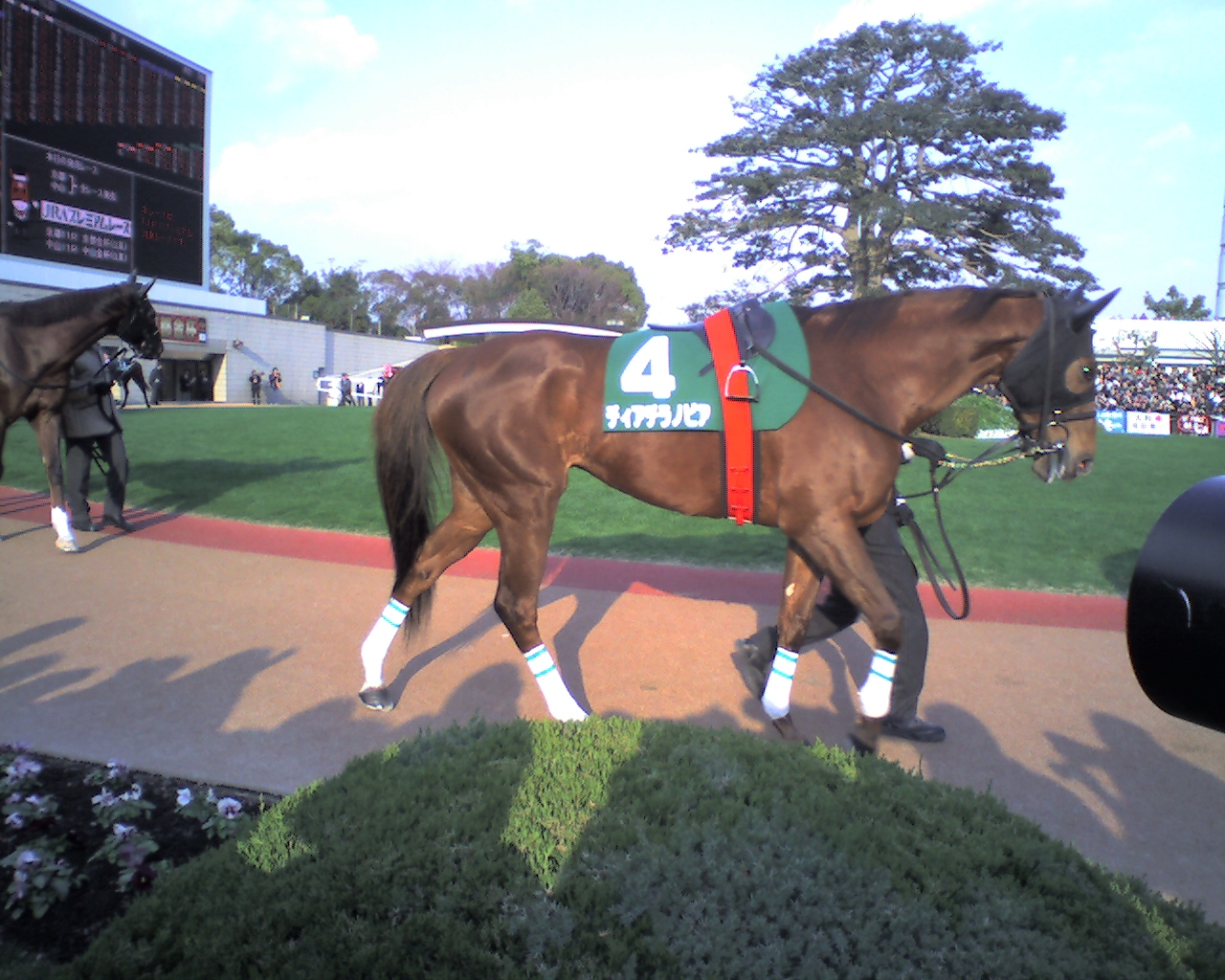 Dia de la Nobia